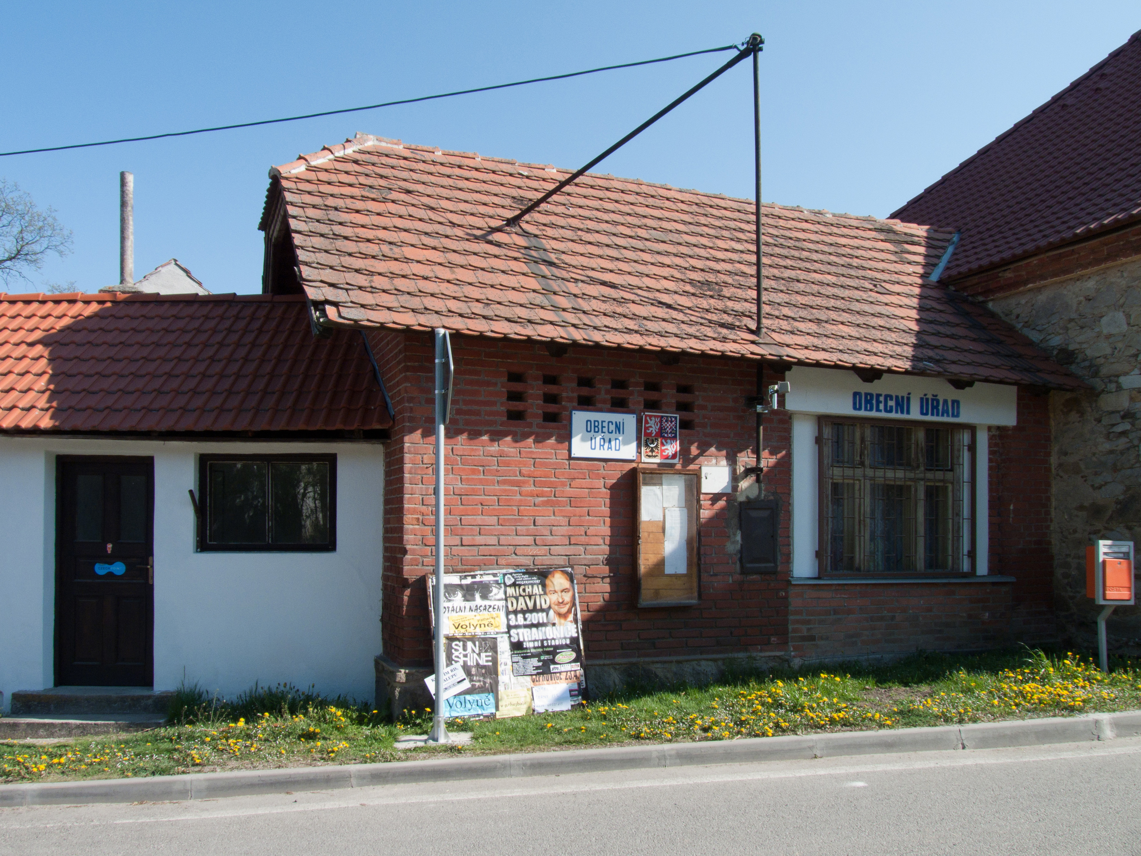 Municipal office building in the village of Třešovice, Strakonice District, Czech Republic.